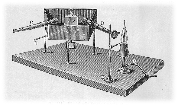 Kirchhoffs first spectroscope